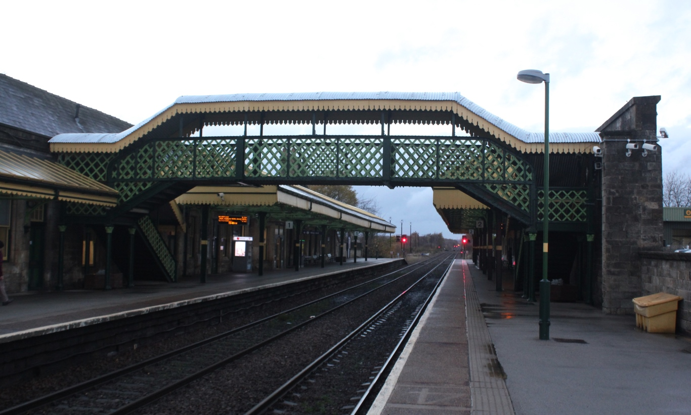 The footbridge at Worksop, along with the rest of the station, was restored in 2018 to the London & North Eastern Railway colours used before 1948. This view is from the east end of platform 2.